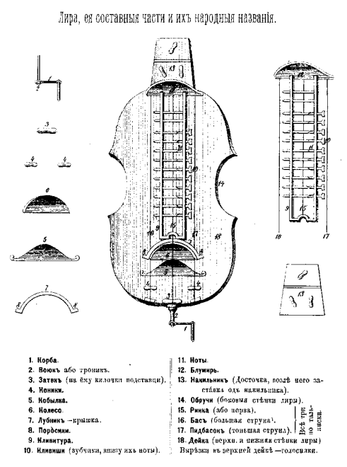 "Ліра, її складові і їхні народні назви". Ілюстрація з часопису "Київська минувшина".